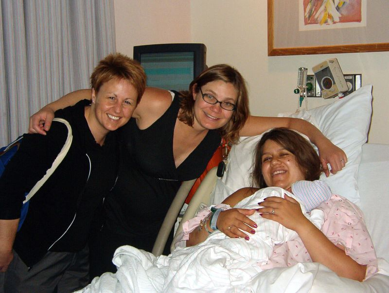 Midwife and Jessica Breese, a Certified Nurse Midwife from Colorado, pose with new mother Amy and her son Austin.